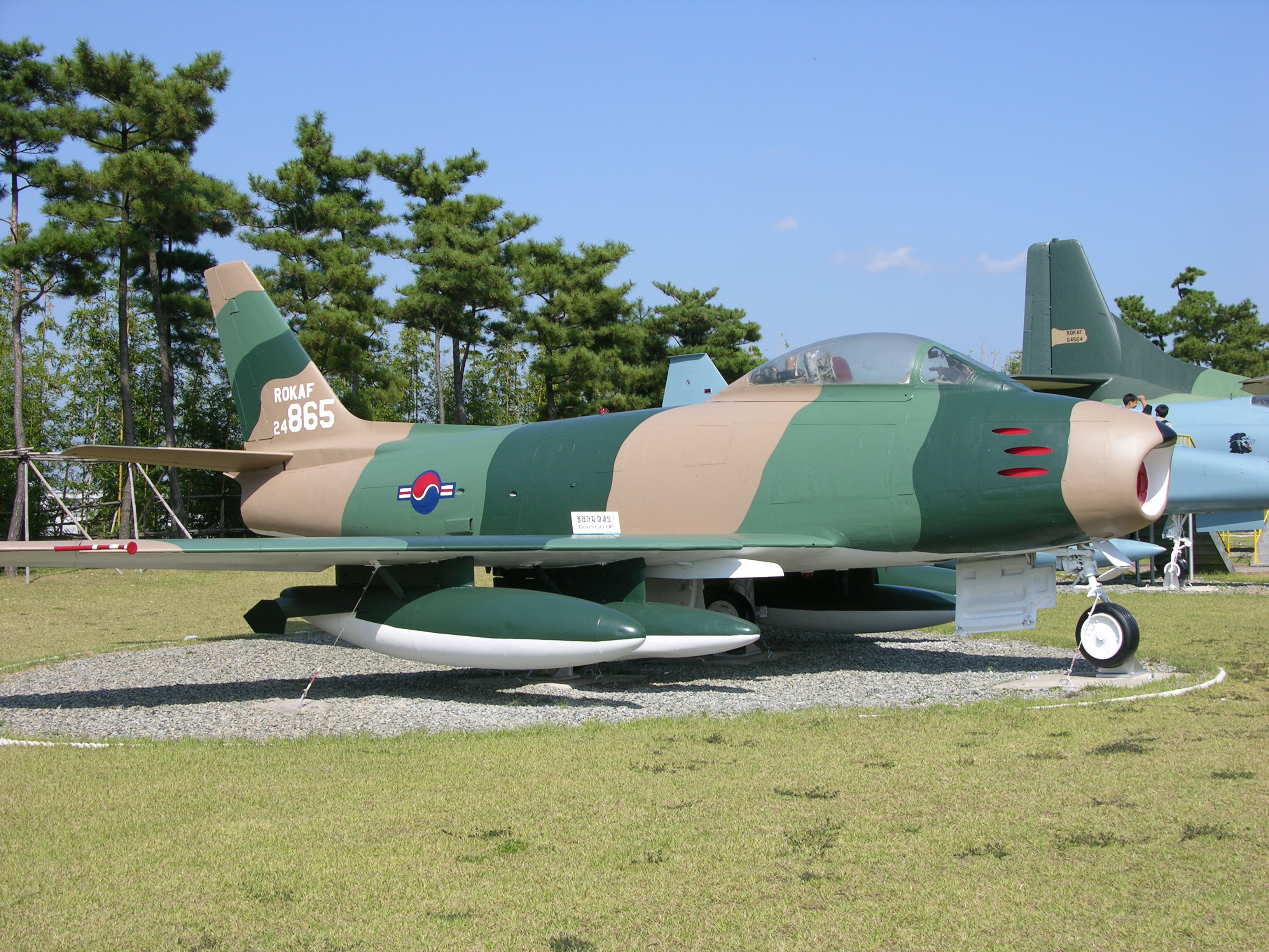 24865 an F-86F RoKAF